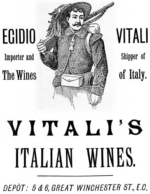 Late XIX century advertising with an Italian "Bersaglieri" light infantryman